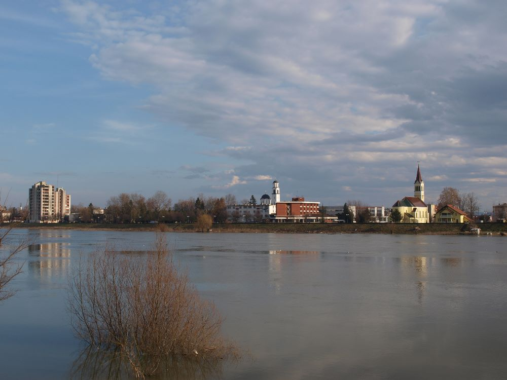 Brod, Republika Srpska, Bosnia and Herzegovina. View from Slavonski Brod.